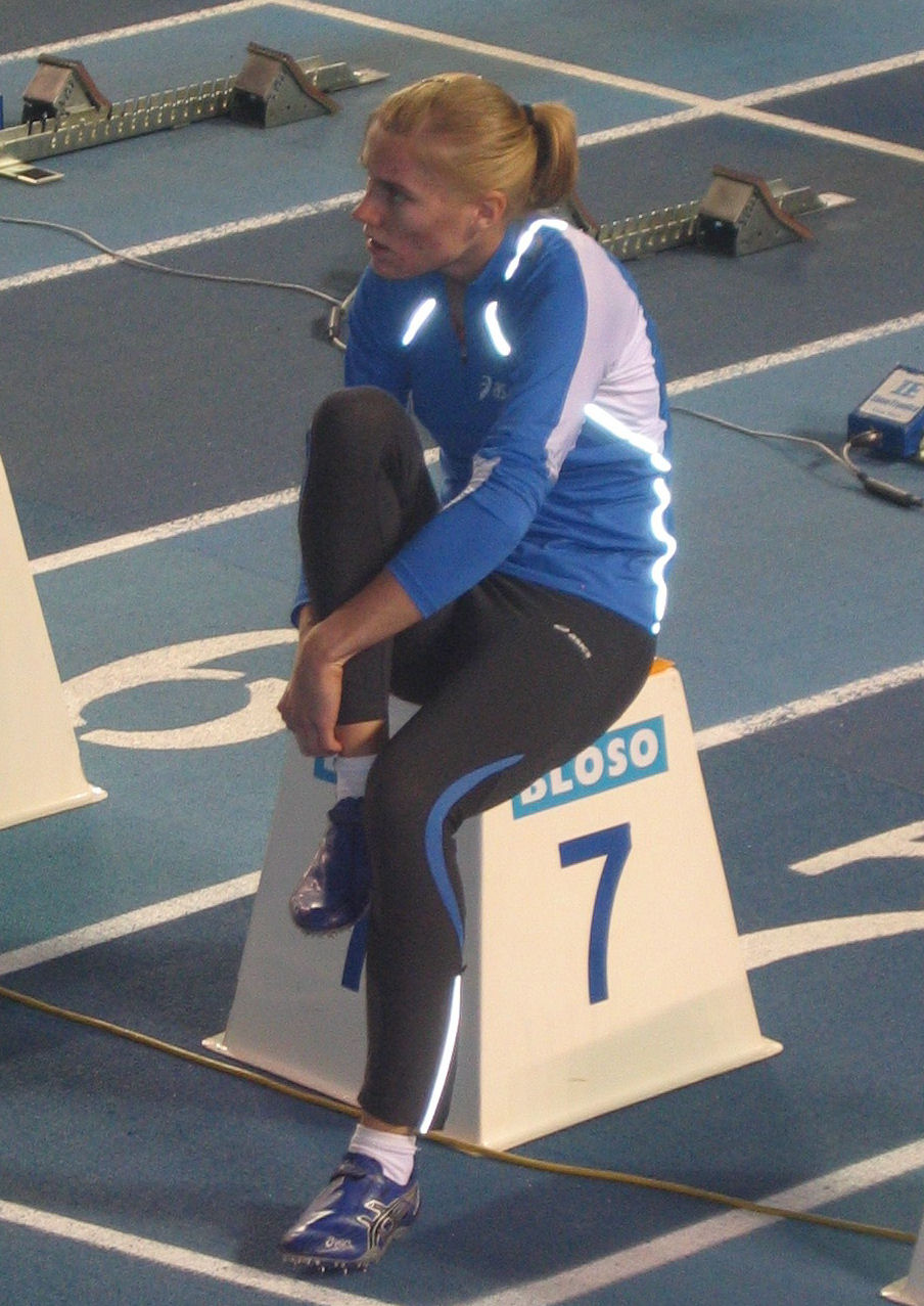 Bregje Crolla at Dutch indoor championships '08, Gent